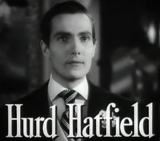 Cropped screenshot of Hurd Hatfield from the trailer for the film The Picture of Dorian Gray.